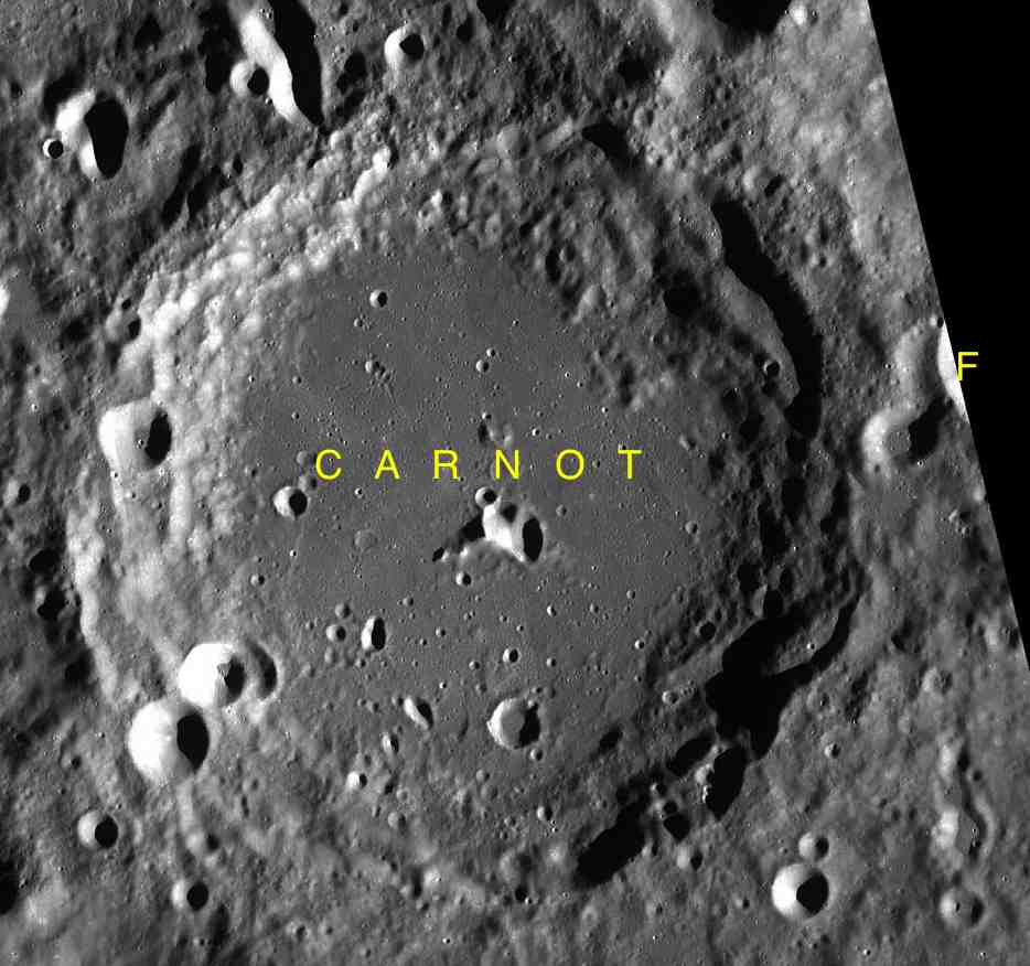 Part of the chart LAC-19 used for the presentation